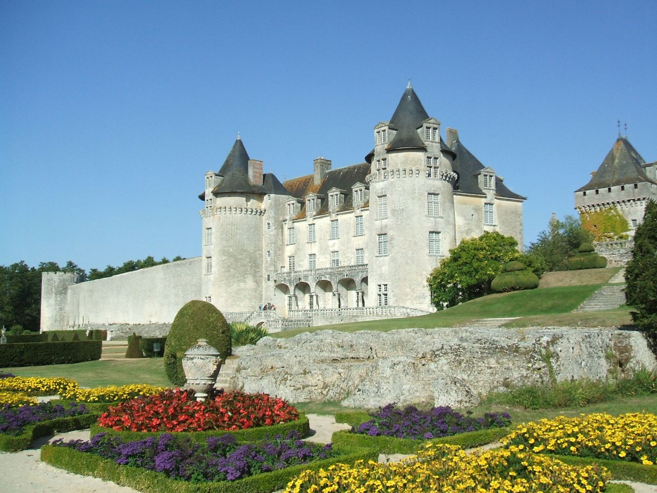 Chateau la Roche-Courbon, Charente